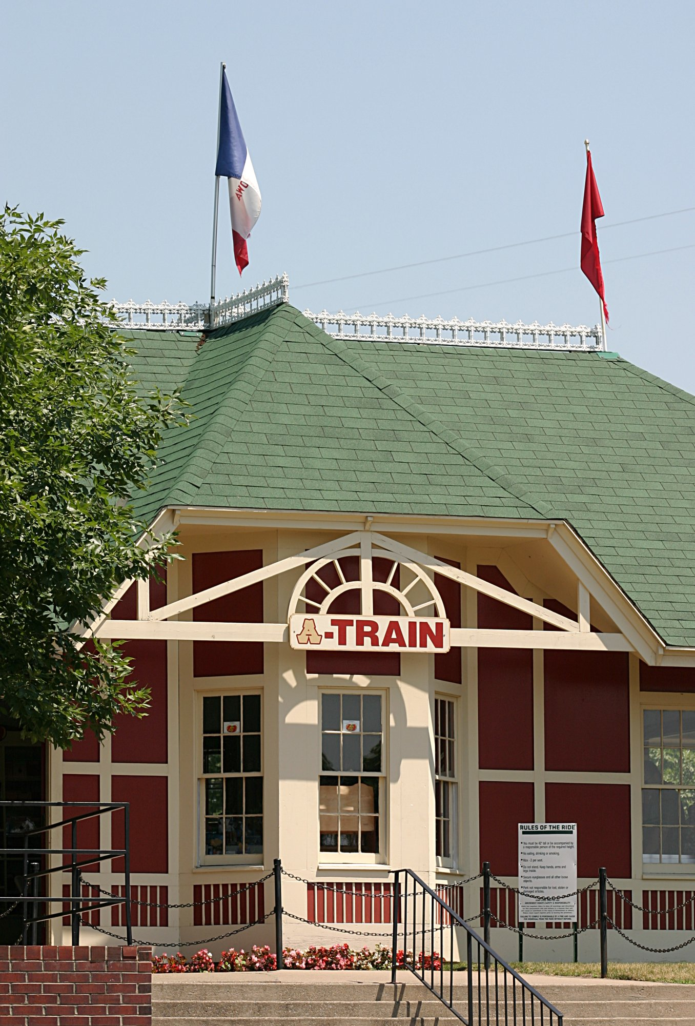 South side view of the Adventureland train station.